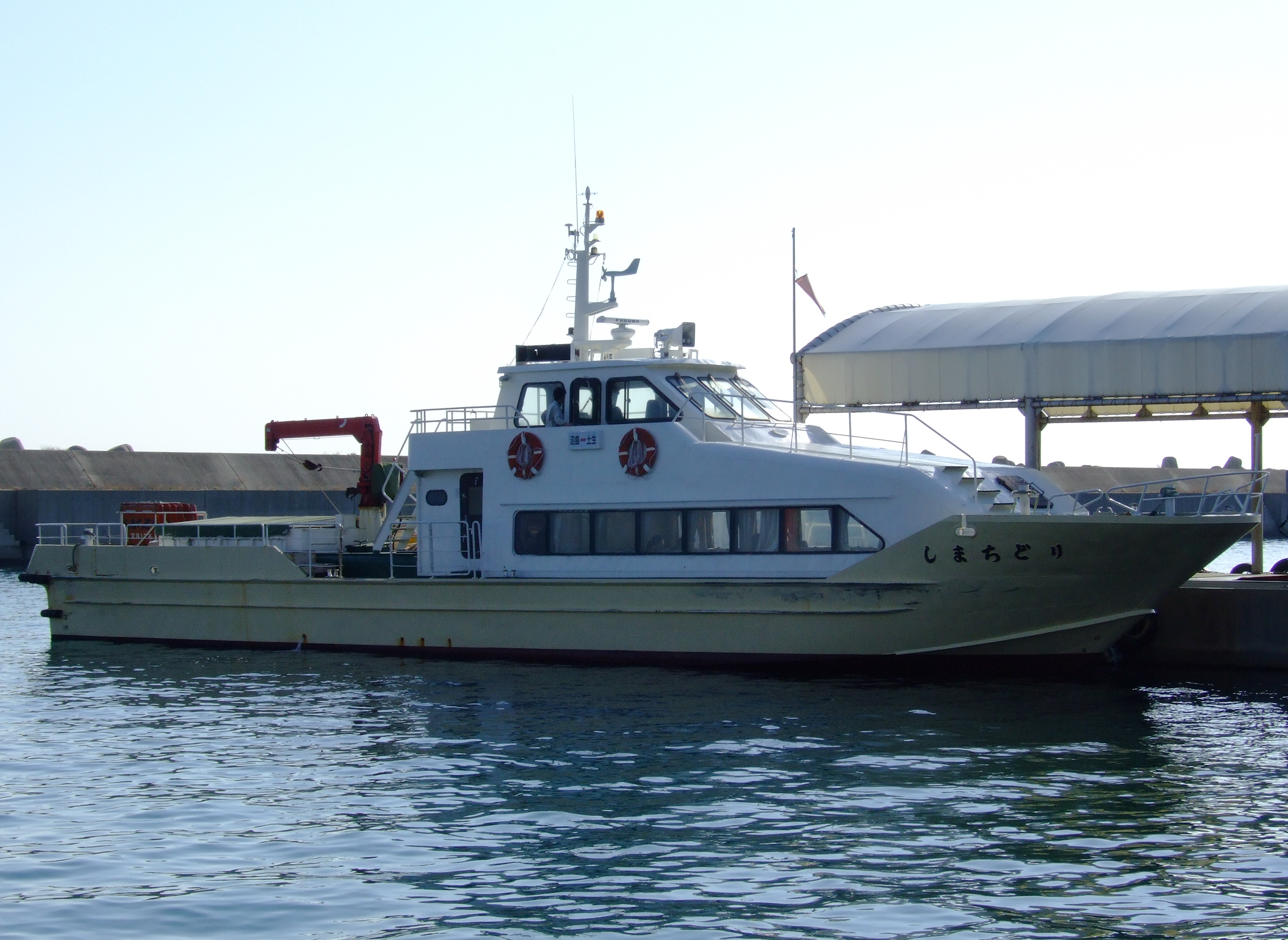 Nushima-kisen, "Shimachidori". Habu port in awaji island, Hyogo prefecture, Japan.